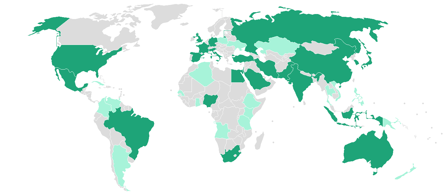 Regional powers